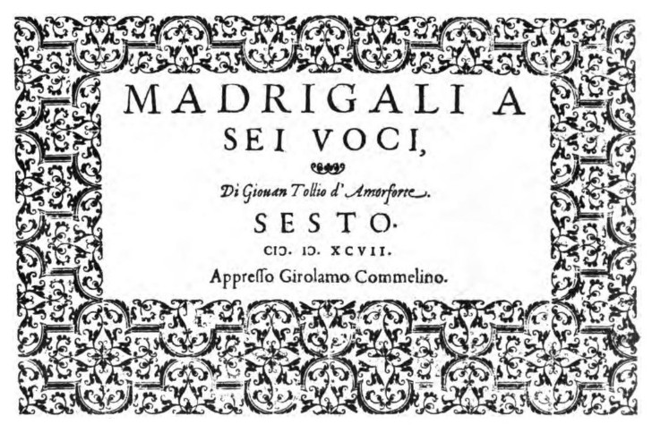 Title page of Jan Tollius's Madrigali a sei voci (Heidelberg/Geneva, 1597).